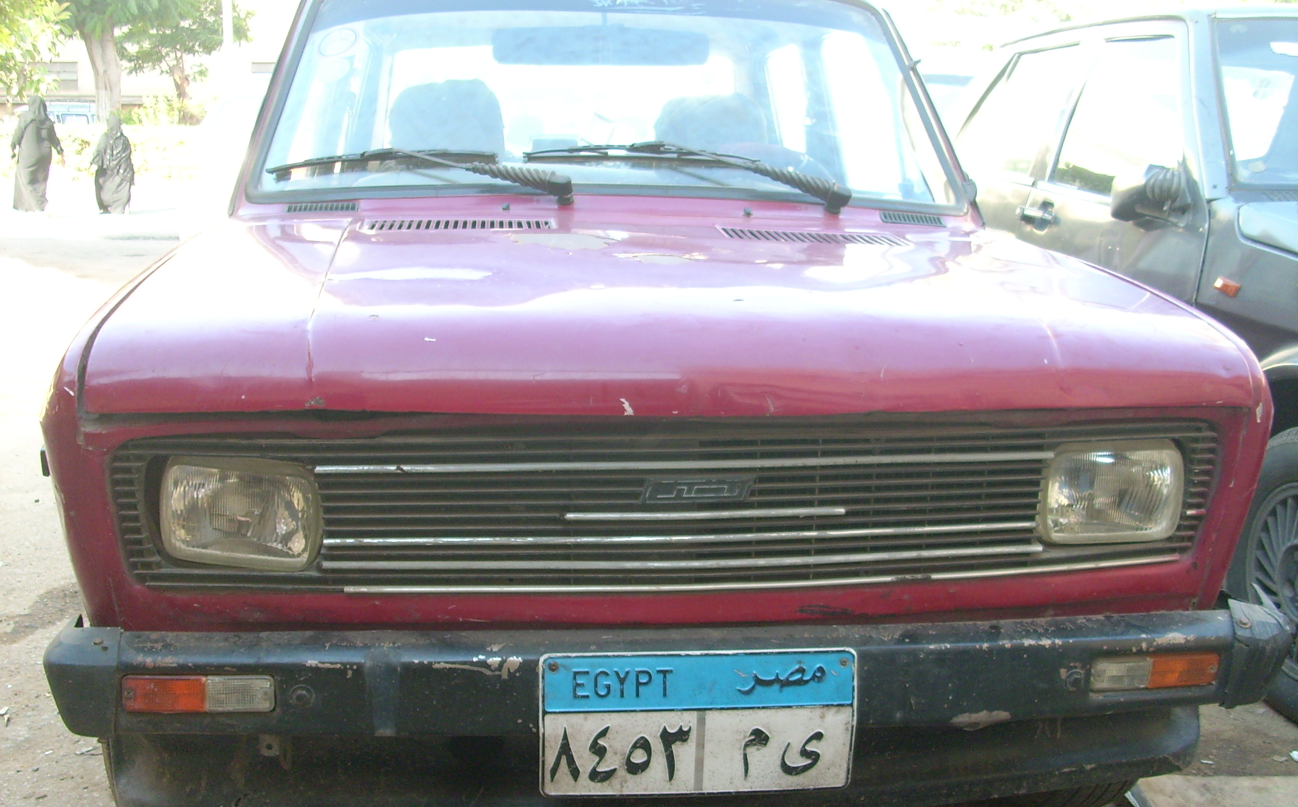 Nasr Fiat 128 Auto